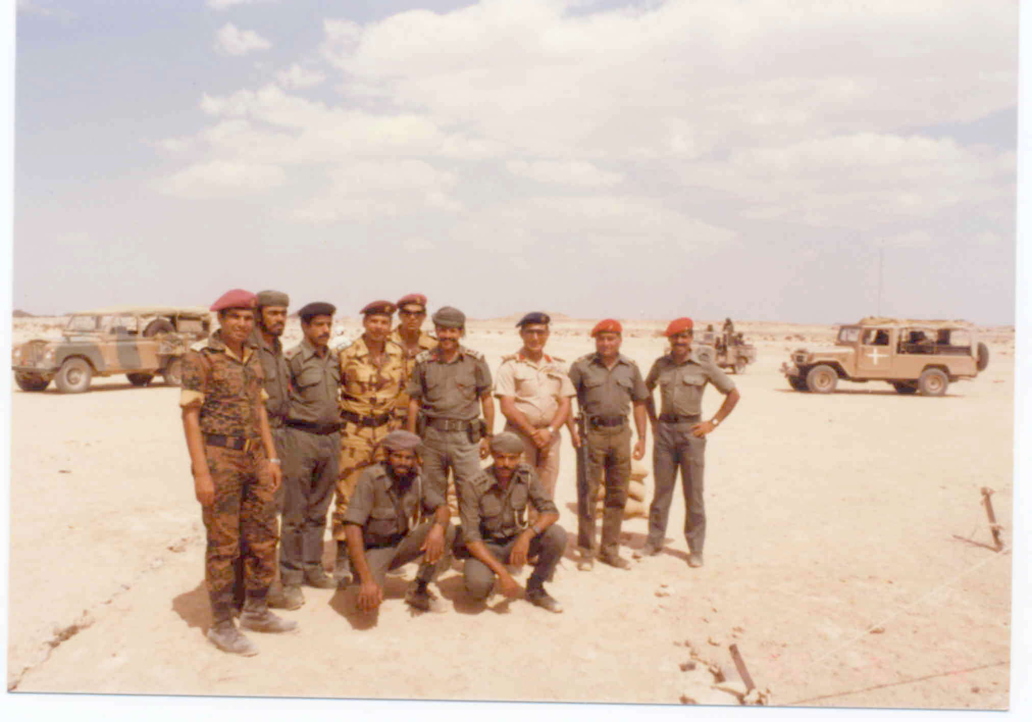 Sultan's officers with Egyptian officers at the end of Exercise Thalab as-Sahara. Commander Southern Oman Brigade is Brigadier Nasib, standing centre, wearing shemargh. Land Cruiser with white cross is an observer's vehicle.